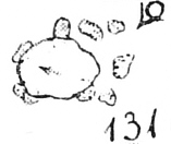 Outline of the dolmen Lüdelsen 1, Saxony-Anhalt